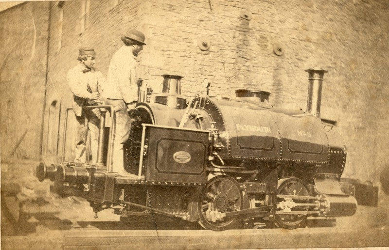 'Plymouth' No 8 in Neath Abbey Ironworks archive (West Glamorgan Archive Service)